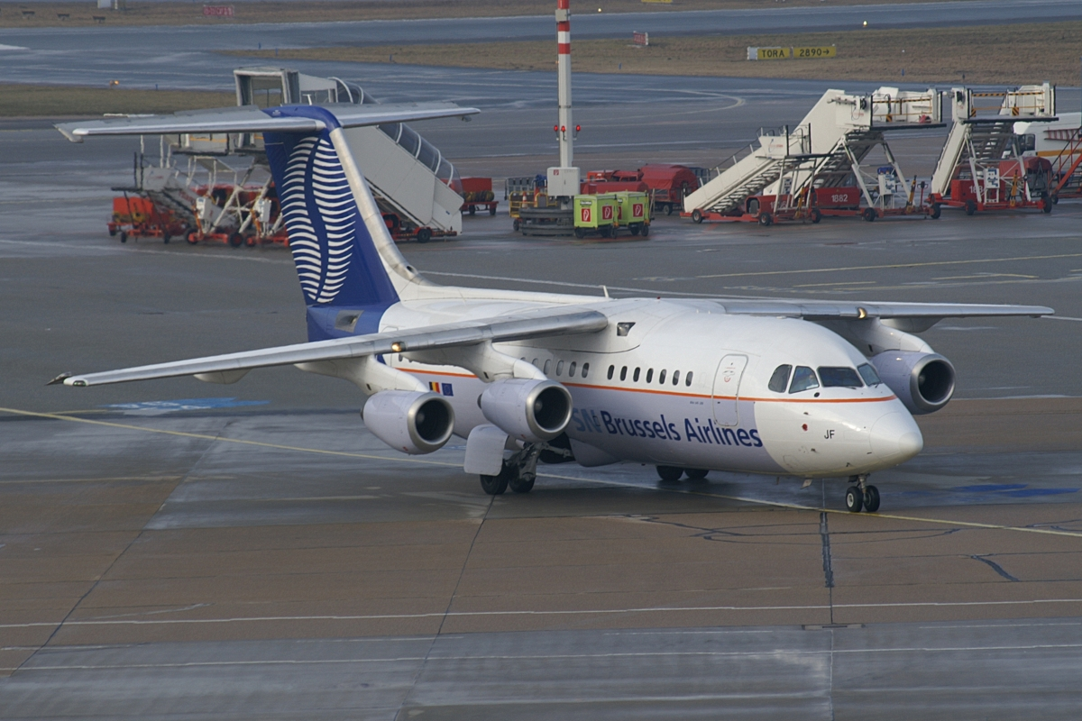 SN Brussels Airlines British Aerospace BAe 146-200 OO-DJF at Hamburg Airport